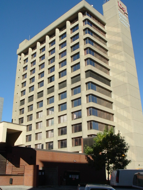 U of L Med Research Tower, Louisville, Kentucky